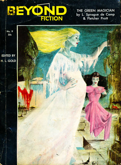 Cover, Beyond Fantasy Fiction, November 1954